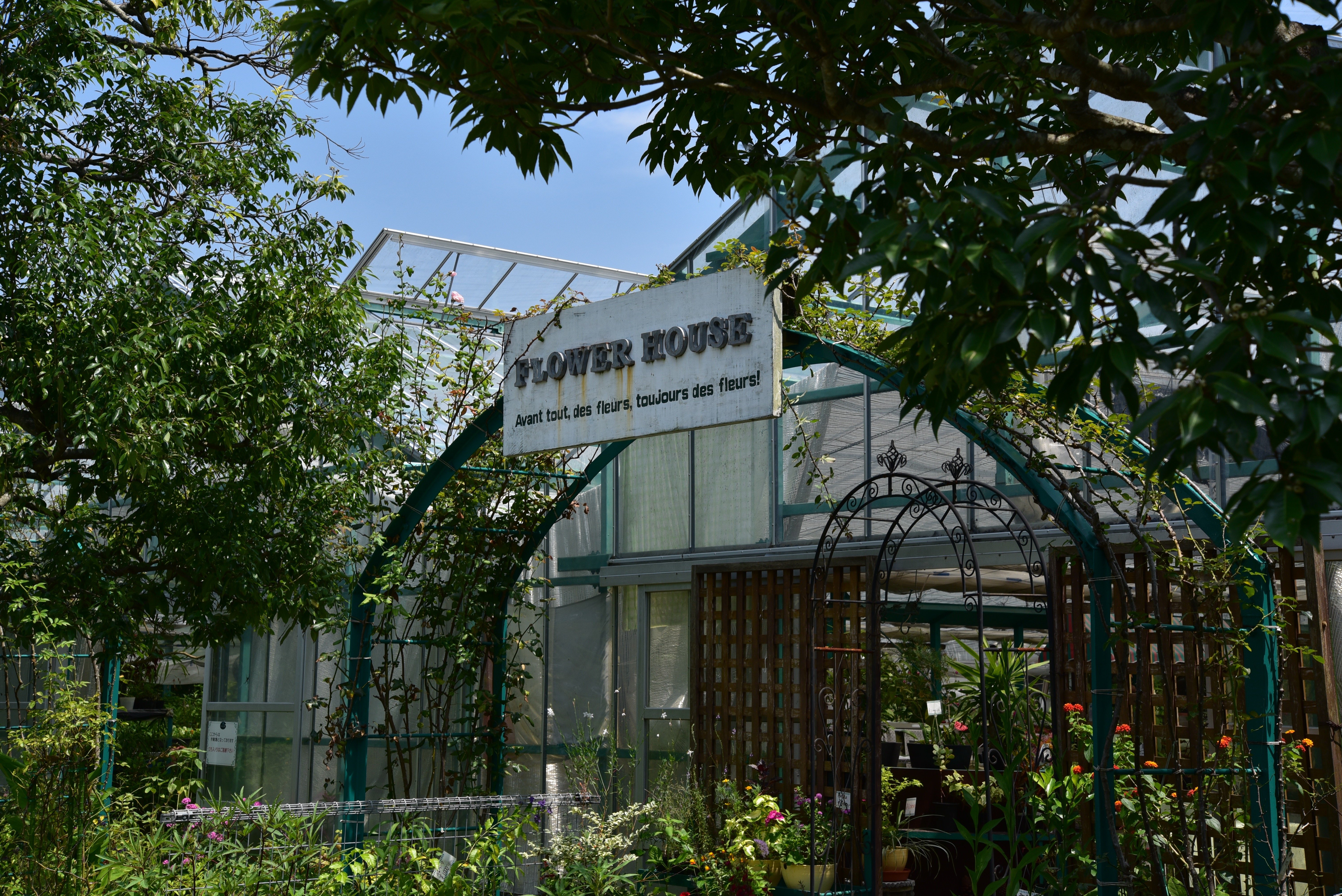 This is not a work of art. Monet of the name has been officially permitted from Monet Foundation. Nikon D750